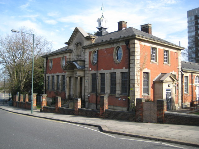 Erith Library This Grade II listed building in Walnut Tree Road was opened on 7 April 1906 to a design by a local architect, William Egerton, with financing from the Carnegie United Kingdom Trust. It was re-furbished and re-opened in September 2000. The building also houses Erith Museum which is currently open on Monday, Wednesday and Saturday afternoons.